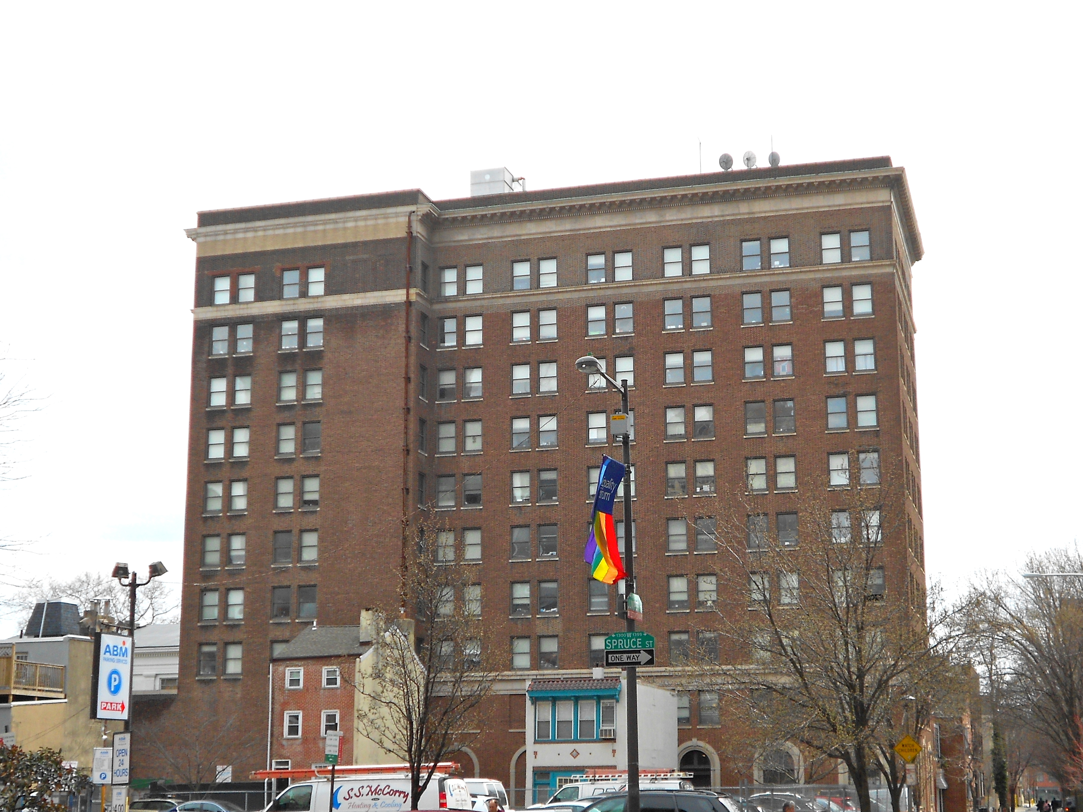 Social Services Building in Philadelphia on the NRHP